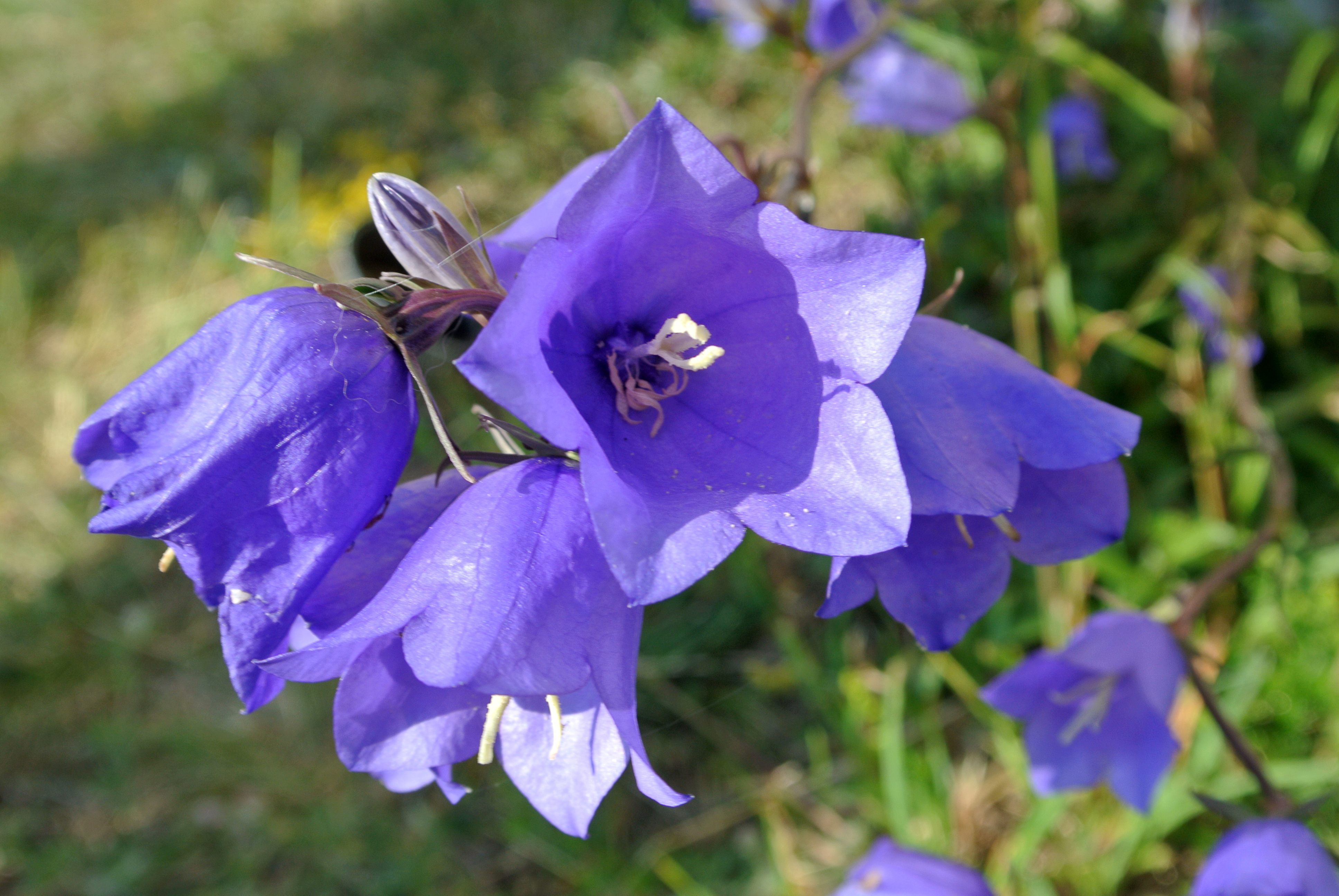 Campanula persicifolia near Tehumardi, Saaremaa Island, Estonia.